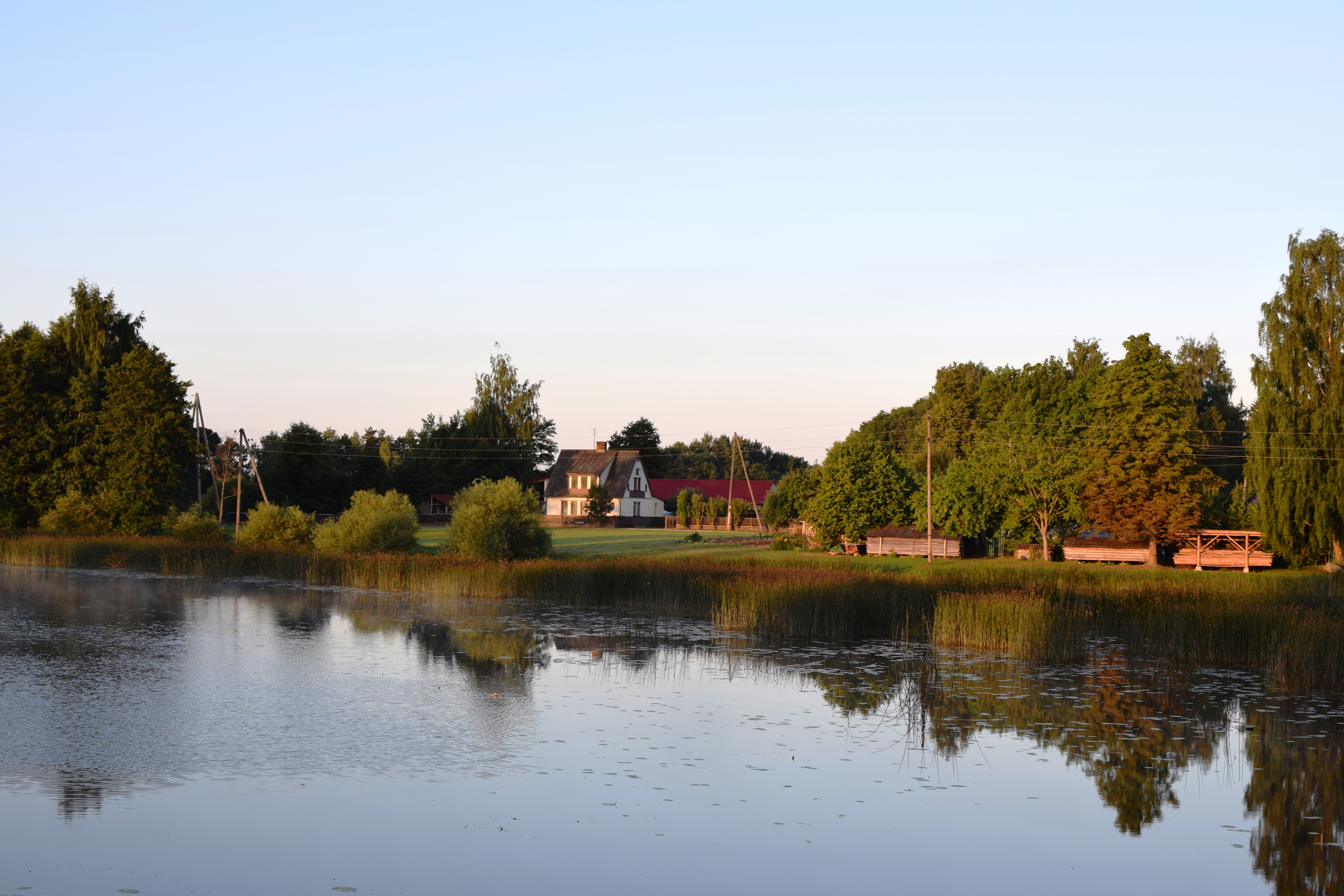 Kroņauce